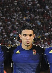 Geddo 2011